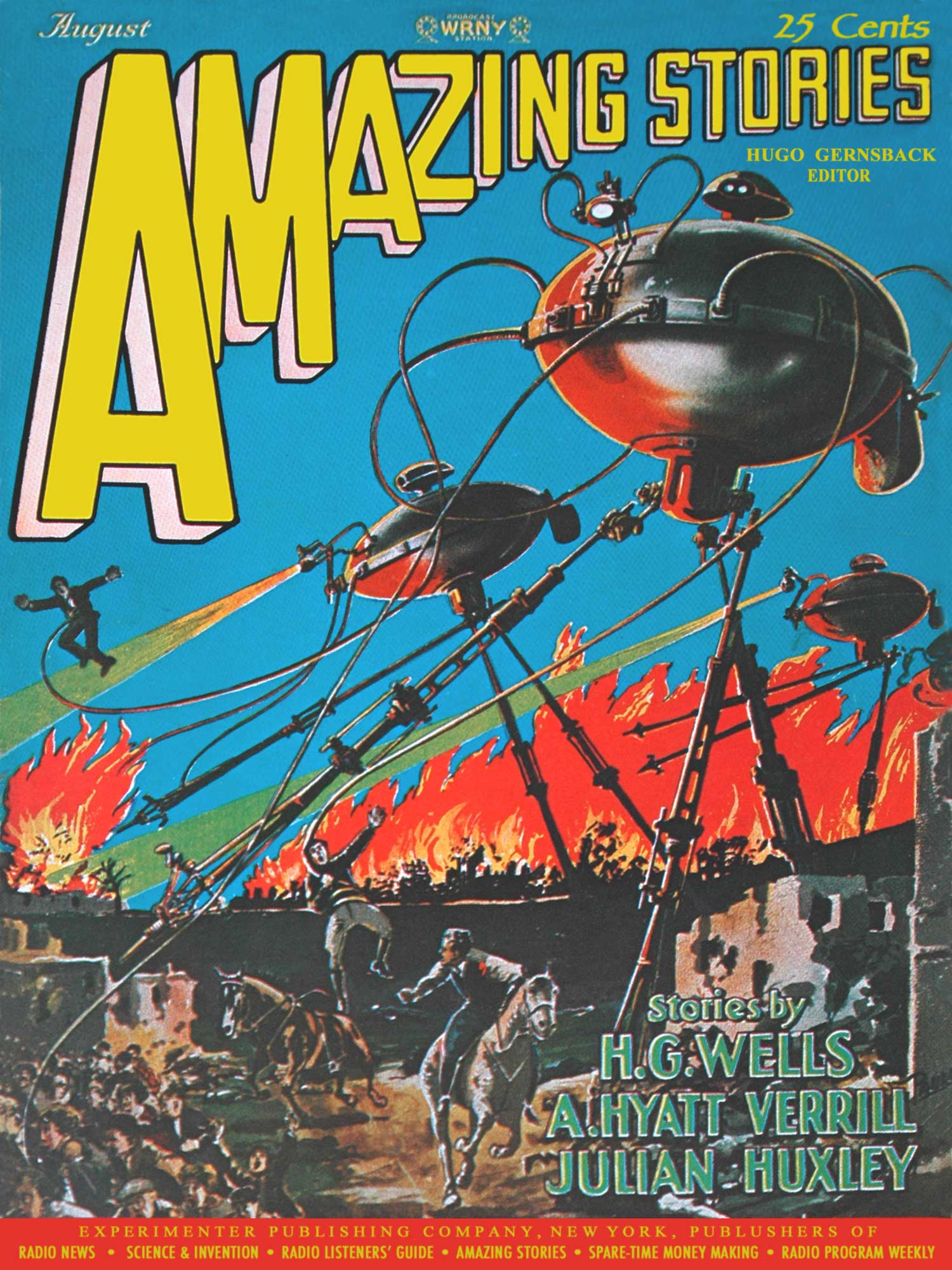 The August 1927 cover of Amazing Stories depicts H. G. Wells' "War of the Worlds". Hugo Gernsback was the Publisher and Editor of Amazing Stories and Frank R. Paul was the illustrator. Paul began working for Gernsback in 1914 and his Amazing Stories covers established the style for Science Fiction magazines.